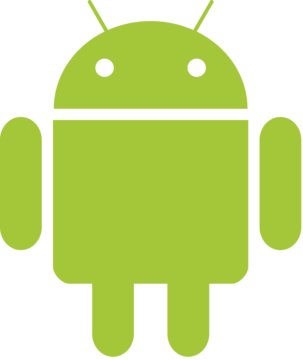 Android logo